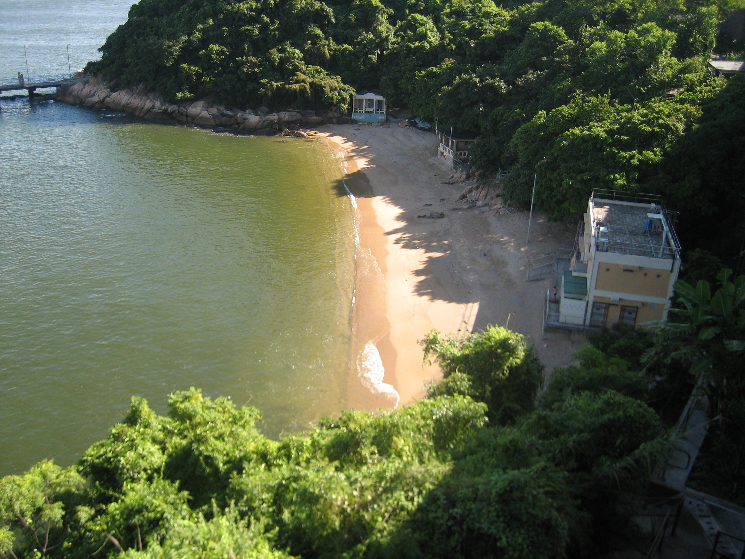 Hoi Mei Beach